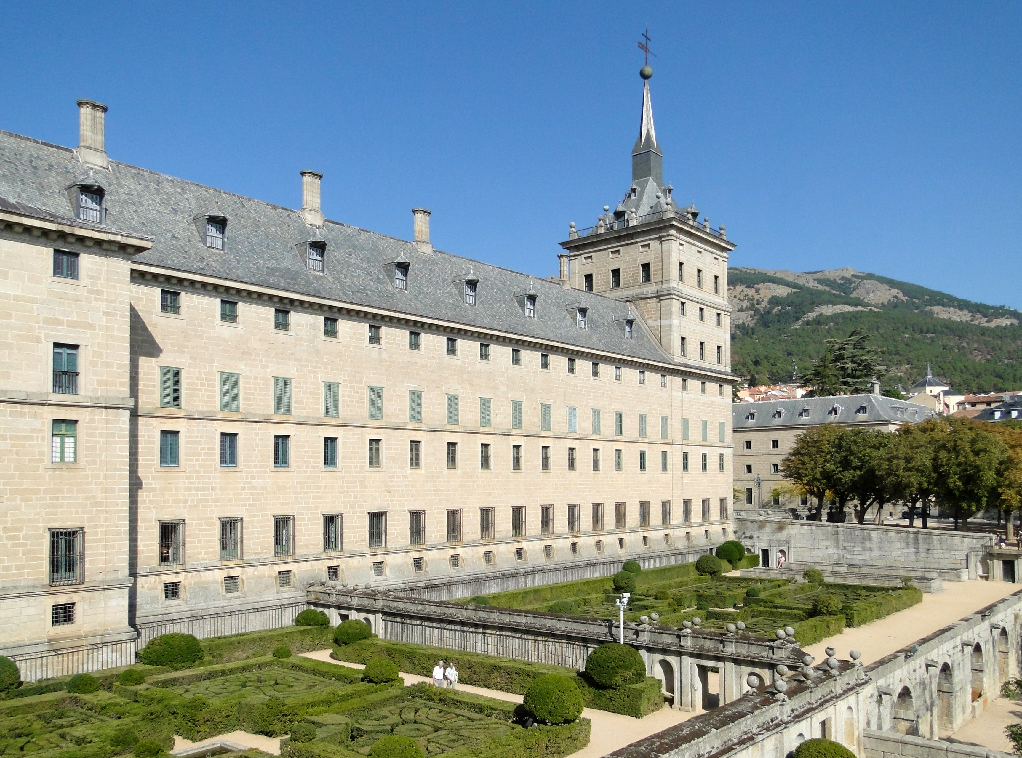 Right side of East facade of the Monastery of El Escorial, , San Lorenzo of El Escorial, Spain